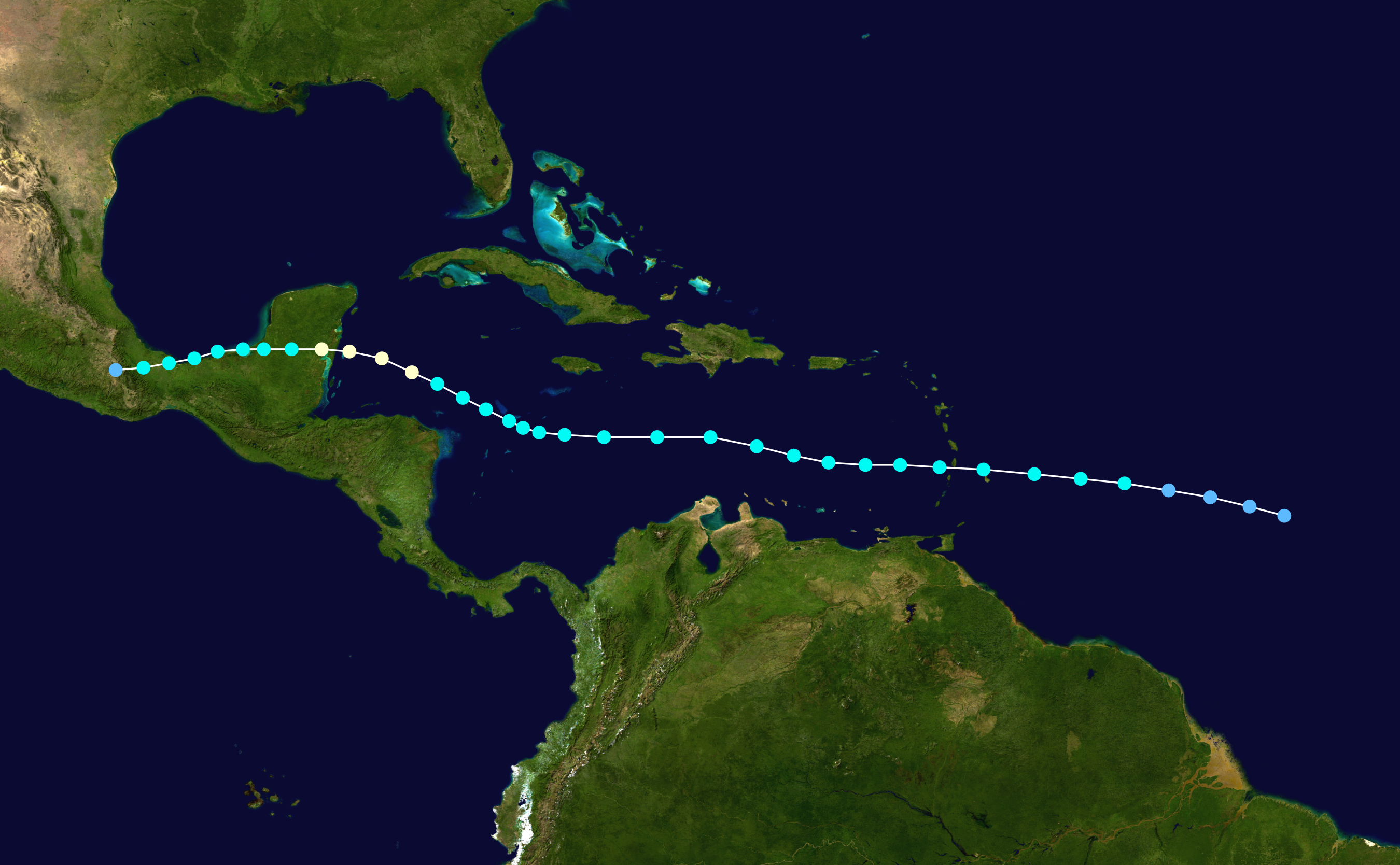 Track map of Hurricane Ernesto of the 2012 Atlantic hurricane season. The points show the location of the storm at 6-hour intervals. The colour represents the storm's maximum sustained wind speeds as classified in the Saffir–Simpson scale (see below), and the shape of the data points represent the nature of the storm, according to the legend below. Saffir–Simpson scale Tropical depression≤38 mph≤62 km/h Category 3111–129 mph178–208 km/h Tropical storm39–73 mph63–118 km/h Category 4130–156 mph209–251 km/h Category 174–95 mph119–153 km/h Category 5≥157 mph≥252 km/h Category 296–110 mph154–177 km/h Unknown Storm type Tropical cyclone Subtropical cyclone Extratropical cyclone / Remnant low / Tropical disturbance / Monsoon depression